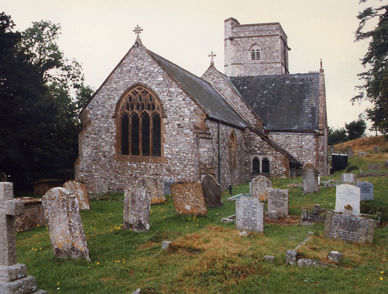 St Mary, Luppitt, Devon